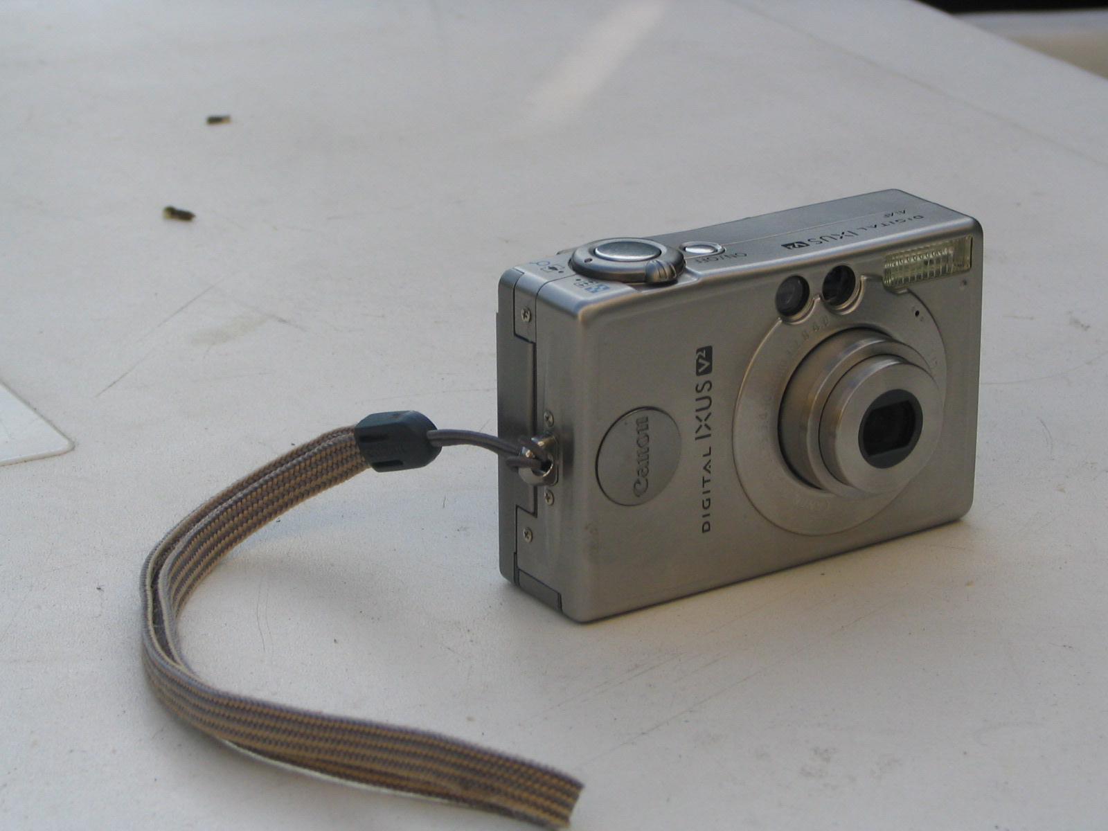 Ixus V2 digital camera.